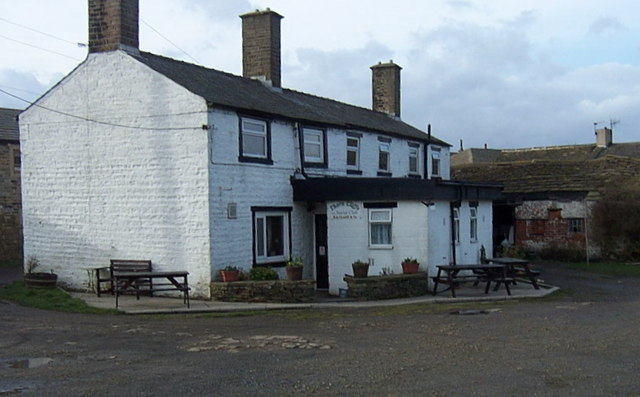 Thorncliffe Social Club The chimneys appear particularly tall. Thorncliffe (spelling as the sign on the Club) is on a hillside exposed to westerly winds, so perhaps the chimneys were raised to prevent smoke being blown down to ground level.